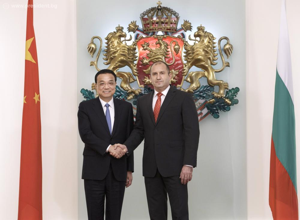 Bulgarian President Rumen Radev and Chinese Premier Li Keqiang in 2018